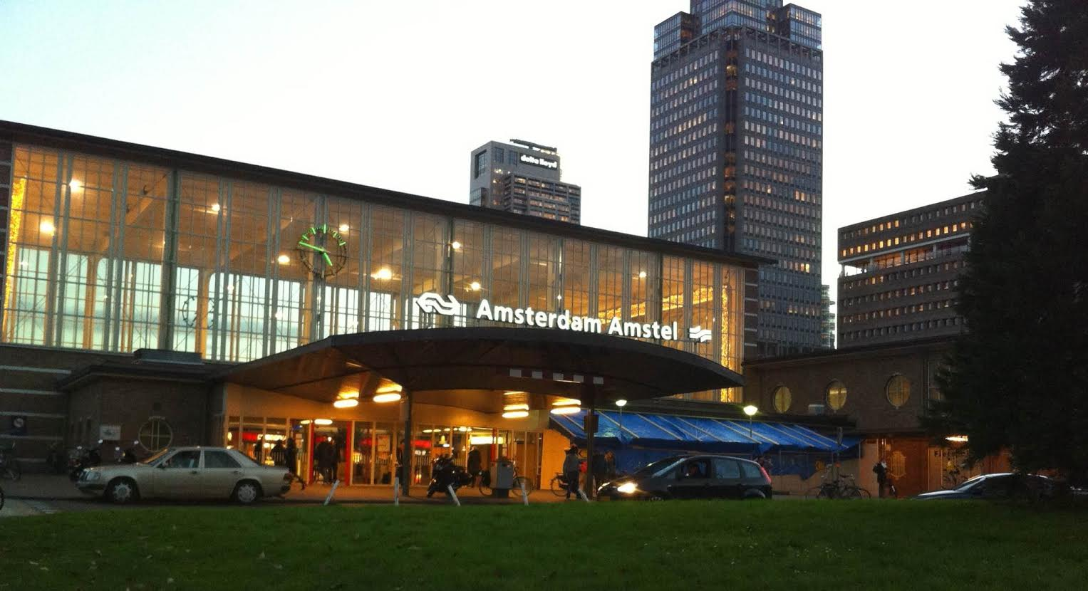 The exterior of Amsterdam Amstel station in Amsterdam, The Netherlands